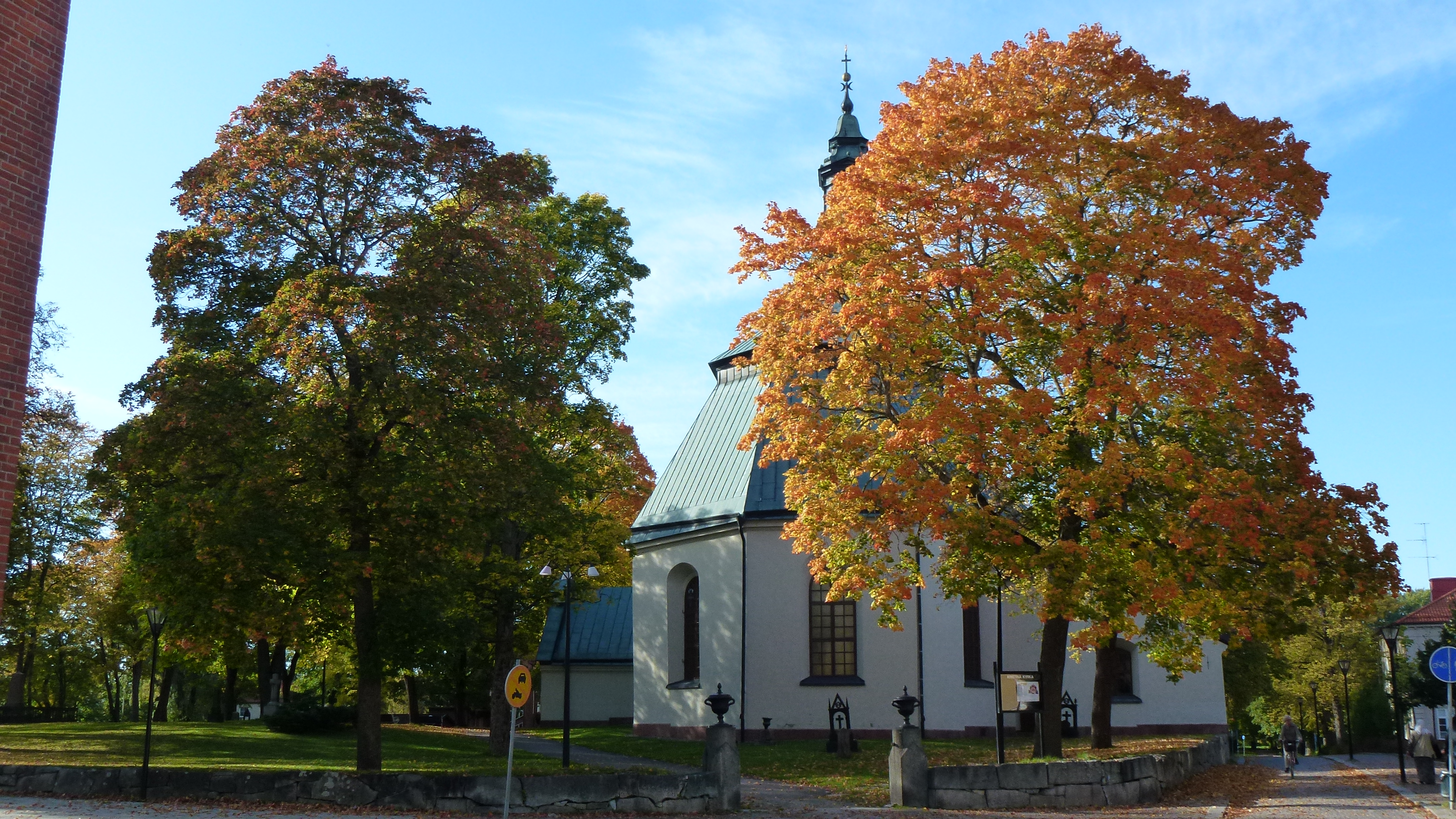 Kristina church in Sala, Västmaland, Sweden